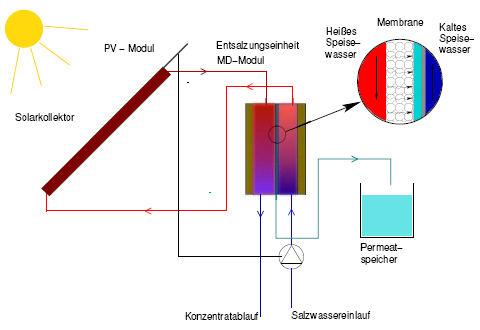 Schematische Darstellung eines Kompaktsystems bestehend aus einem thermischen Solarkollektor, einem PV-Modul, einer Pumpe und einem MD-Modul